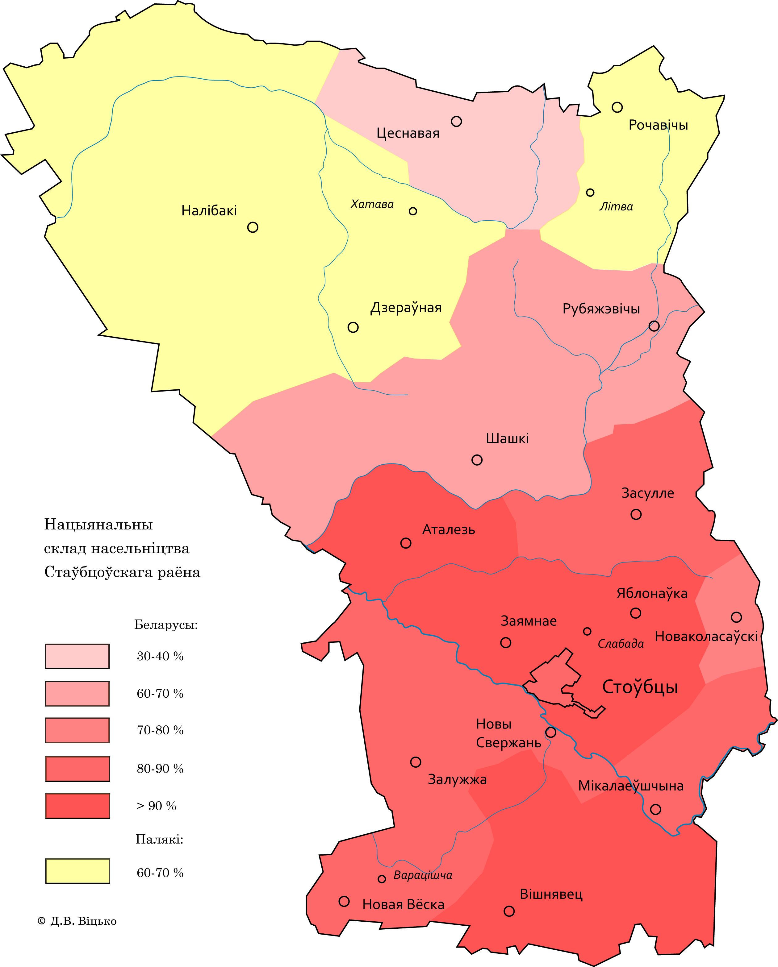 Ethnic composition of Stowbtsy Raion 2009